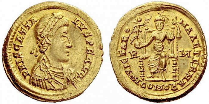 Priscus Attalus, 409–410, Rome, Solidus, AV 4.46 g. PRISC ATTA–LVS P F AVG Pearl-diademed, draped and cuirassed bust r. Rev. INVICTA RO – MA AETERNA Roma seated facing on throne, holding Victory on globe and reversed spear; in field, R – M and in exergue COMOB. C 3. RIC 1404. LRC 812. Depeyrot 39/1.